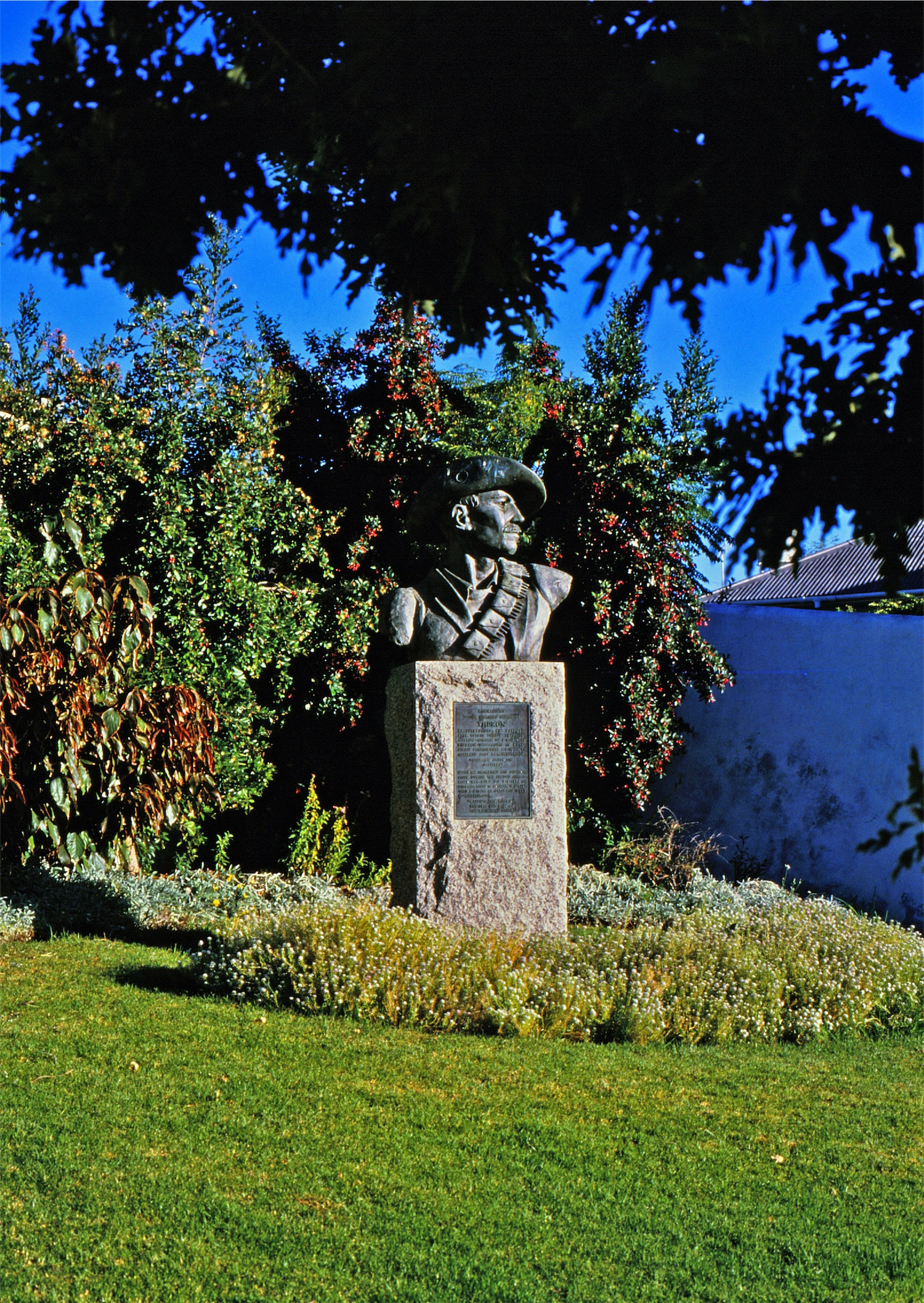 This media shows a South African Protected Site with SAHRA file reference 0000000000.